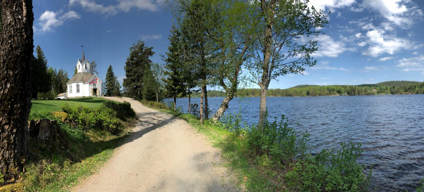 Kilebygda Church from 1859